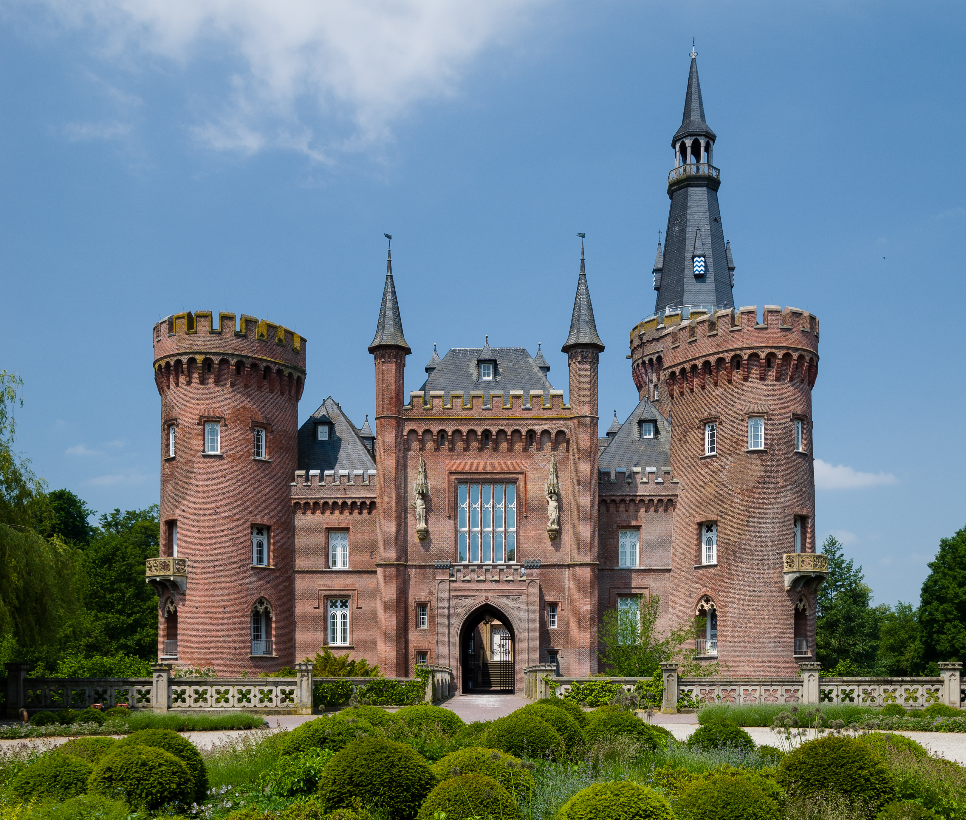 Moyland Castle